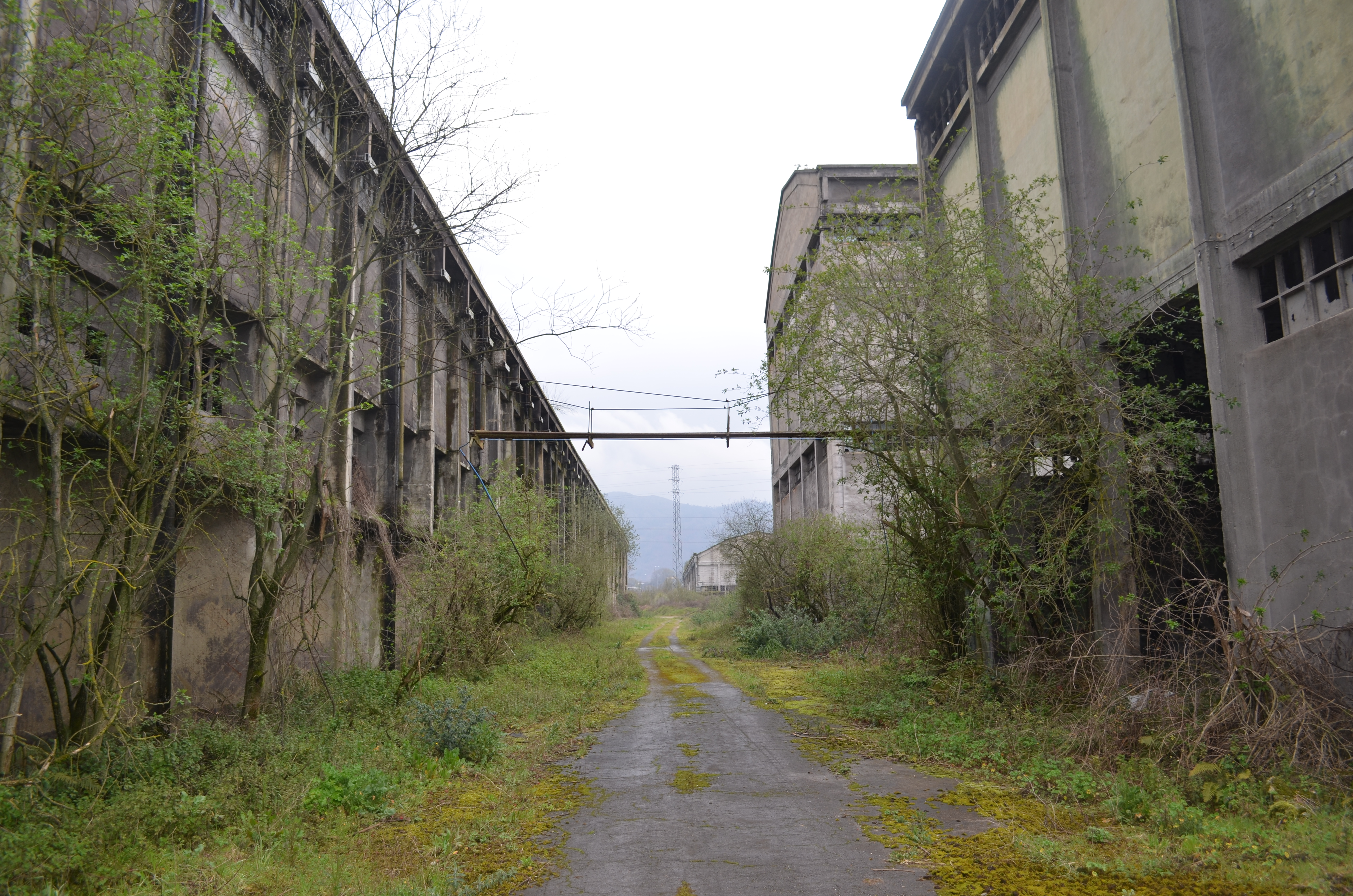 Depósitos en Factoría de Nitrógeno (Langreo, Asturias)